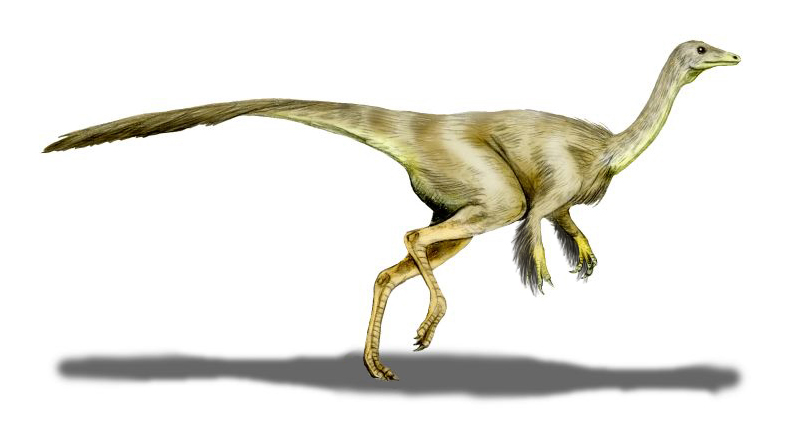 Struthiomimus altus is an ornithomimid from the Late Cretaceous of Alberta, pencil drawing, digital coloring